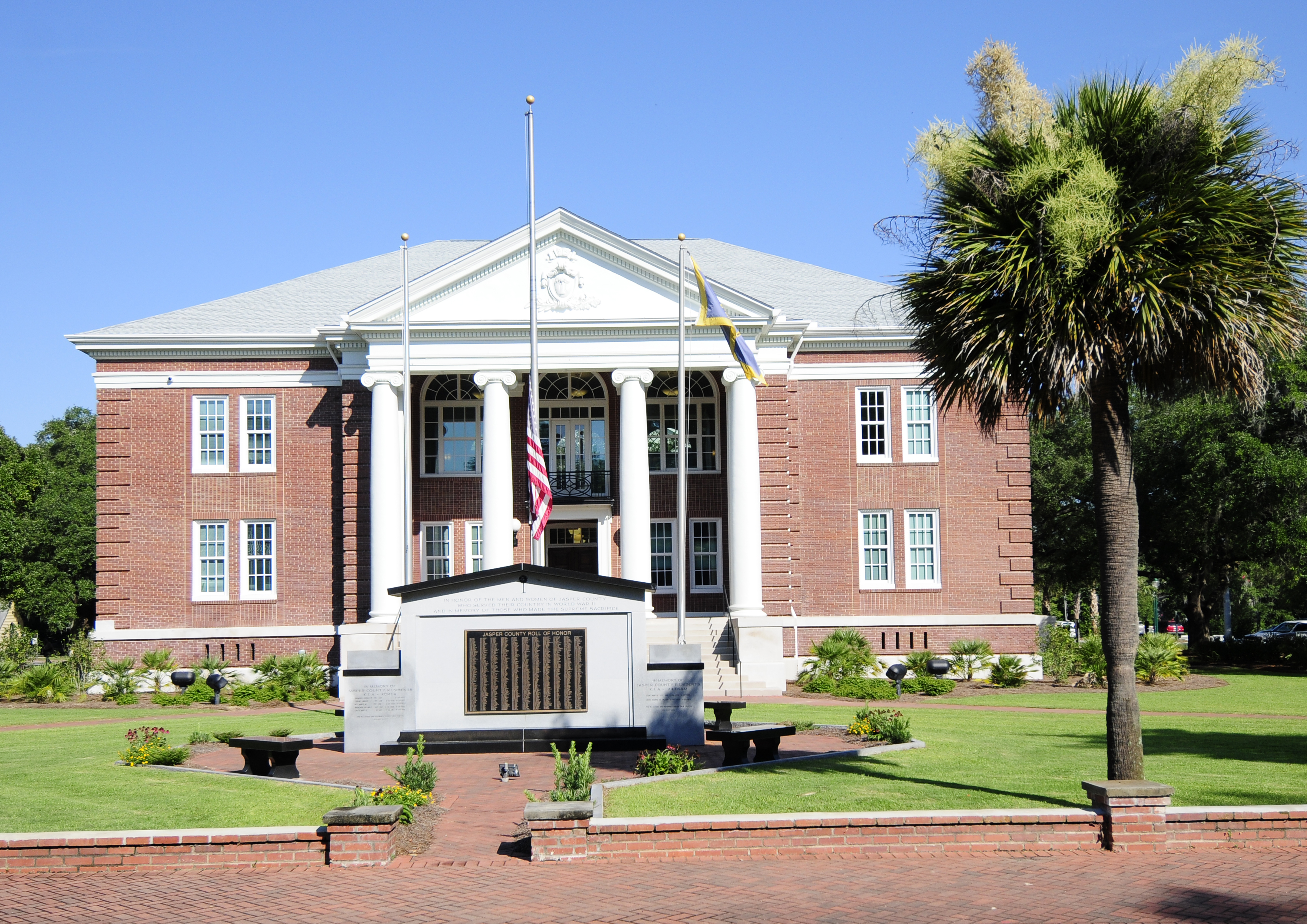 Jasper County Courthouse